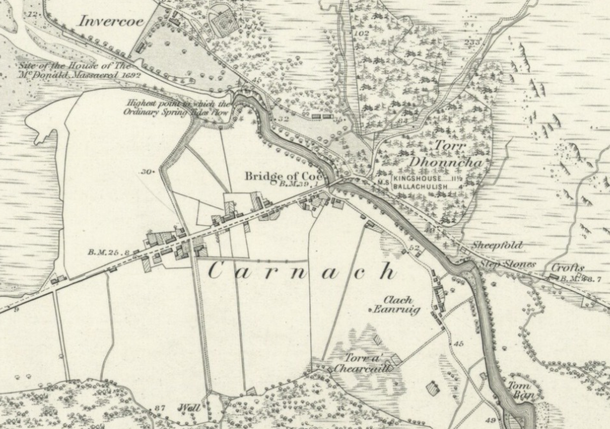 Melville, “Ordnance Survey, Six-inch 1st edition, Argyllshire, Sheet XXXI, Area of Lismore and Appin (survey date 1870, published 1875), excerpt of Carnach region